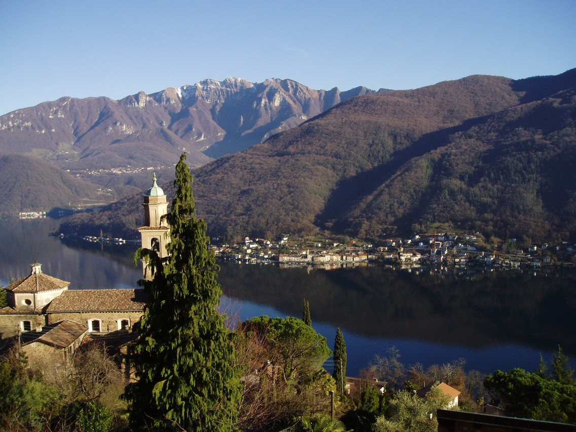 Template:View of Lake Lugano from Vico Morcote, Ticino, Switzerland